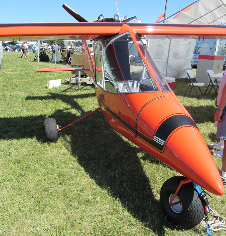 Titan Toranado SS